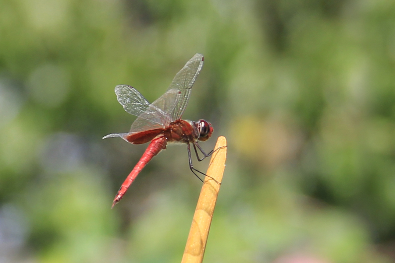 Crocothemis erythraea, Scarlet Dragonfly, found in Southwestern Puerto Rico.